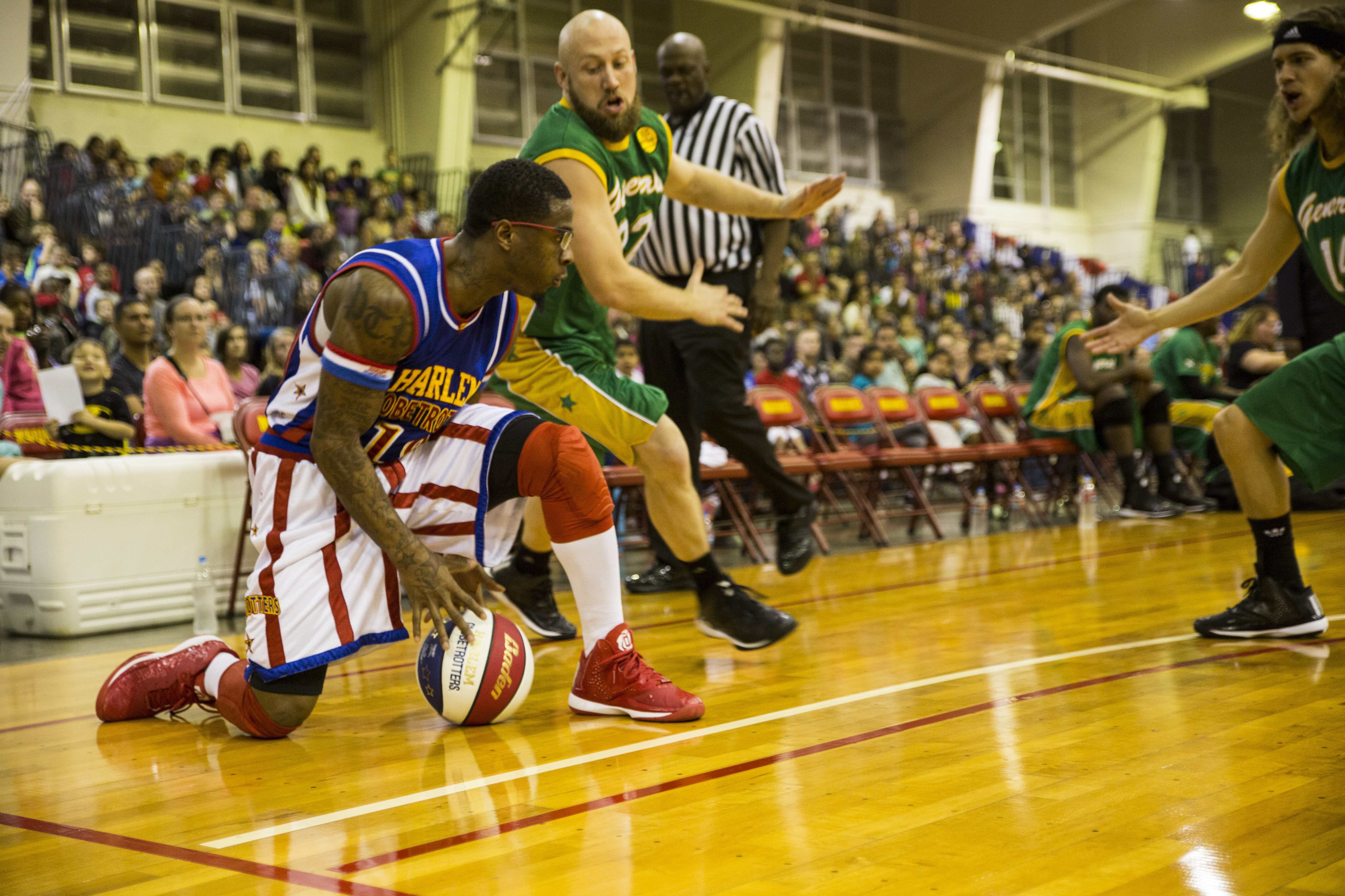 Harlem Globetrotters guard Saul ‘Flip’ White, left, displays his ball handling wizardry to the crowd Dec. 9 at The Foster Field House on Camp Foster. The Harlem Globetrotters displayed their basketball artistry to service members and their families in a showdown with their rivals, the Washington Generals. The event was a part of the Harlem Globetrotters 13th military tour, in which the team travels overseas to U.S. military installations to provide memories of home during the holidays. The game was presented by Navy Entertainment, Leatherneck Tour and Marine Corps Community Services. (Marine Corps Photo by Cpl. Joey S. Holeman, Jr./ Released)